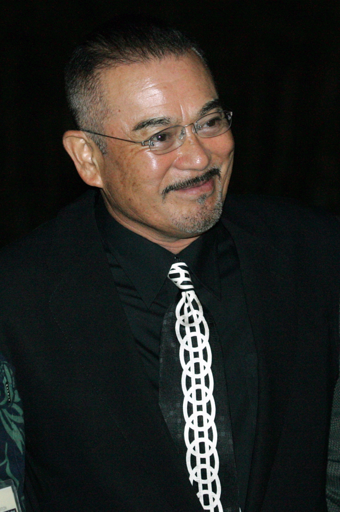 Sonny Chiba at the Hawaii Int'l Film Festival